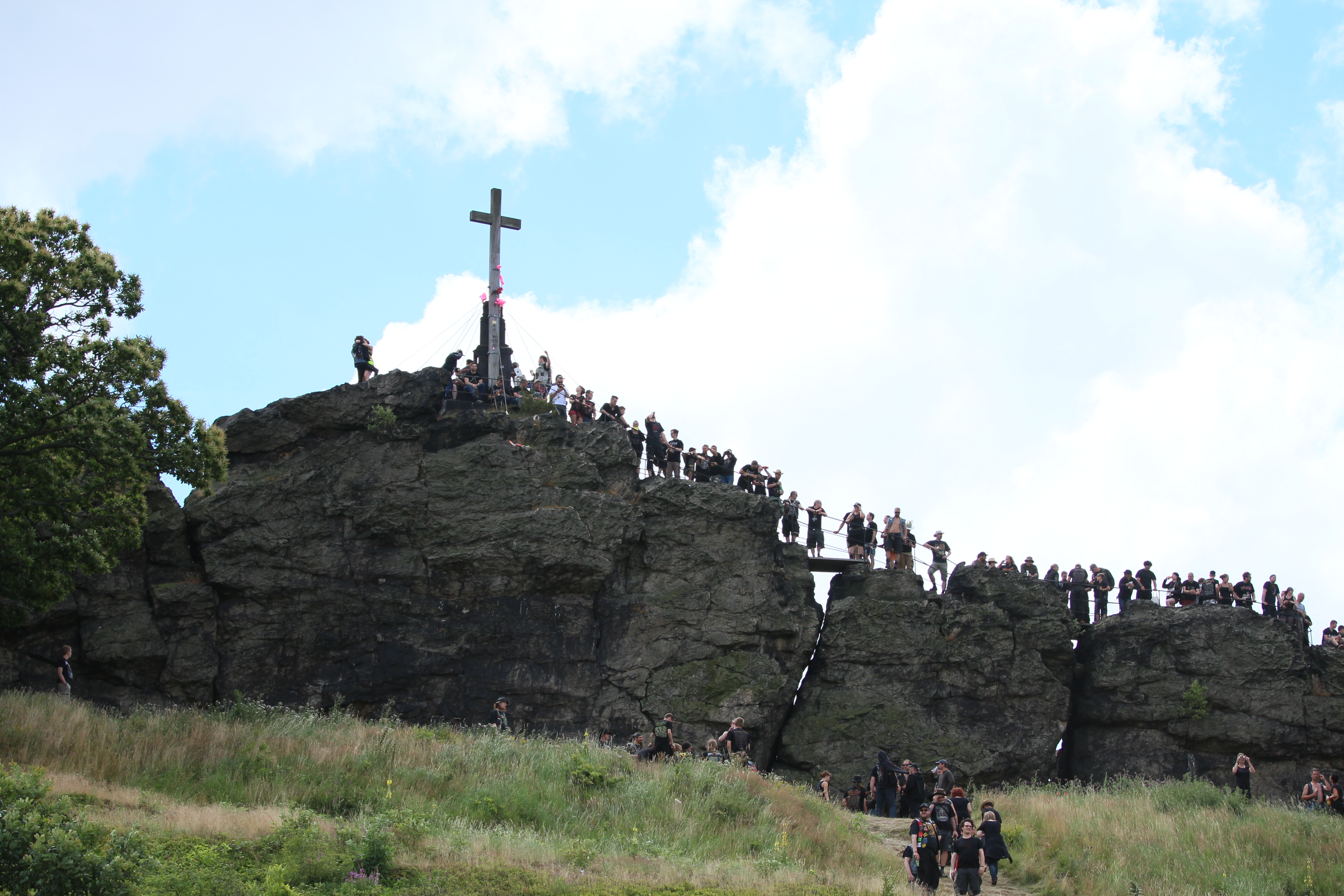 Impressions from the Rockharz Open Air 2014 in Ballenstedt/Germany